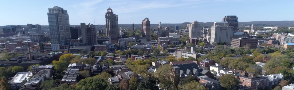 A quick shot of Downtown New Haven, Connecticut in 2020.